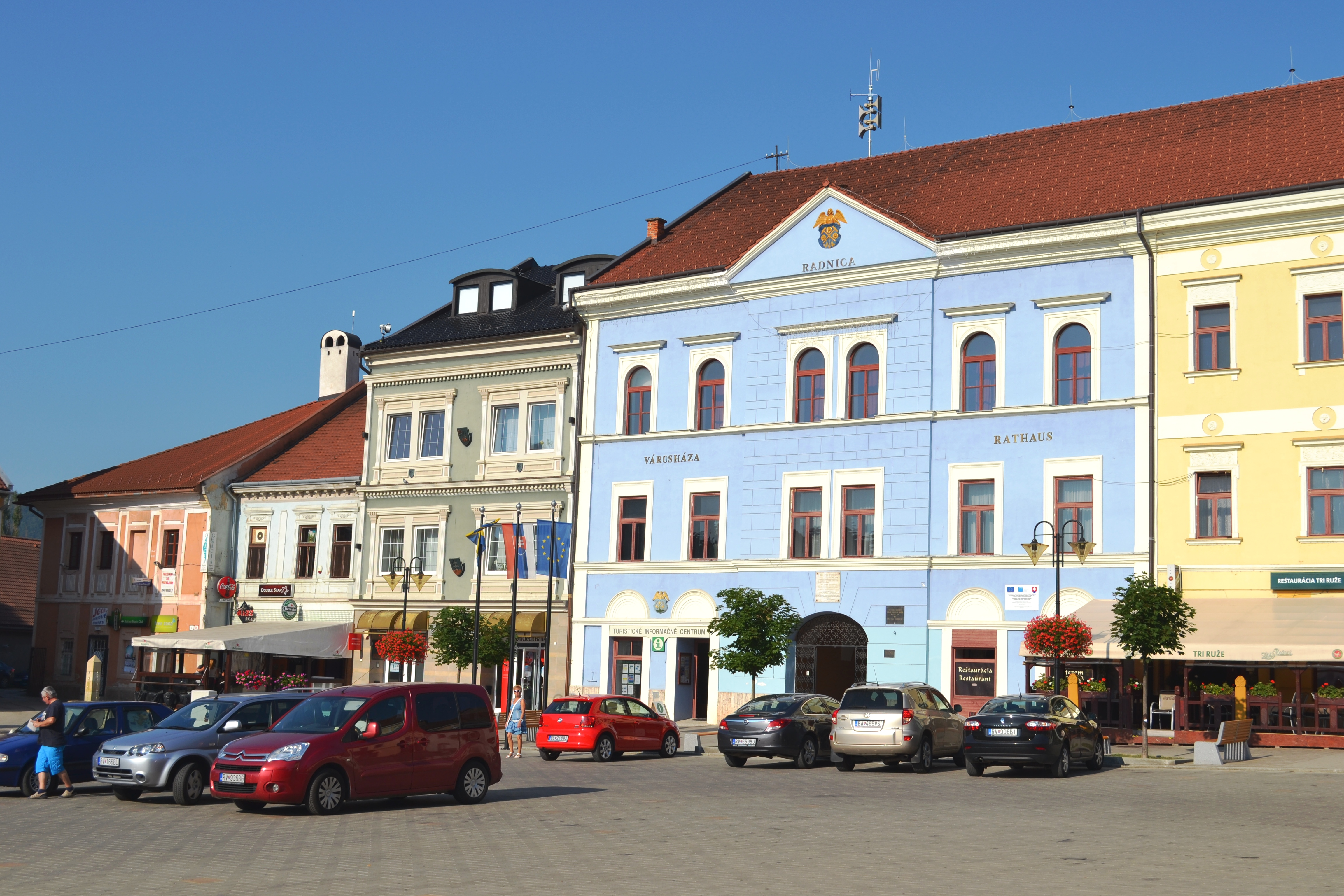 Town Hall of RožňavaSlovenčina: Mestský úrad v Rožňave